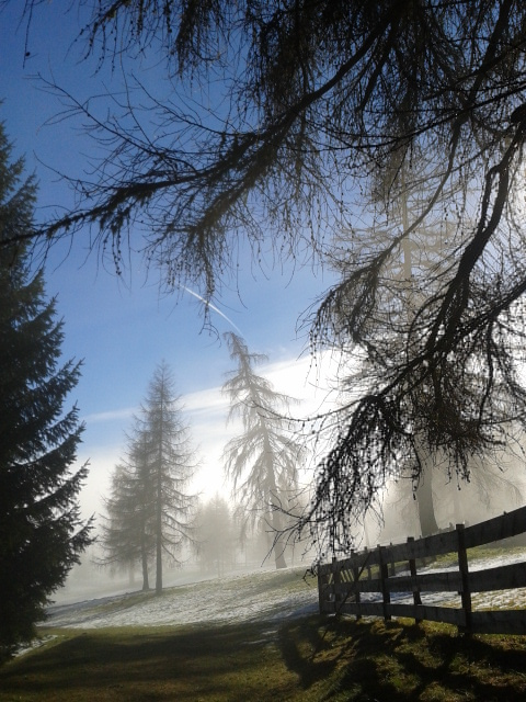 Misty mountain atmosphere near Bozen-Bolzano in the Southern Tyrol. Picture taken on the Salten ridge